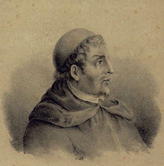 Portrait of Lorenzo Penna, composer (1613-1693).